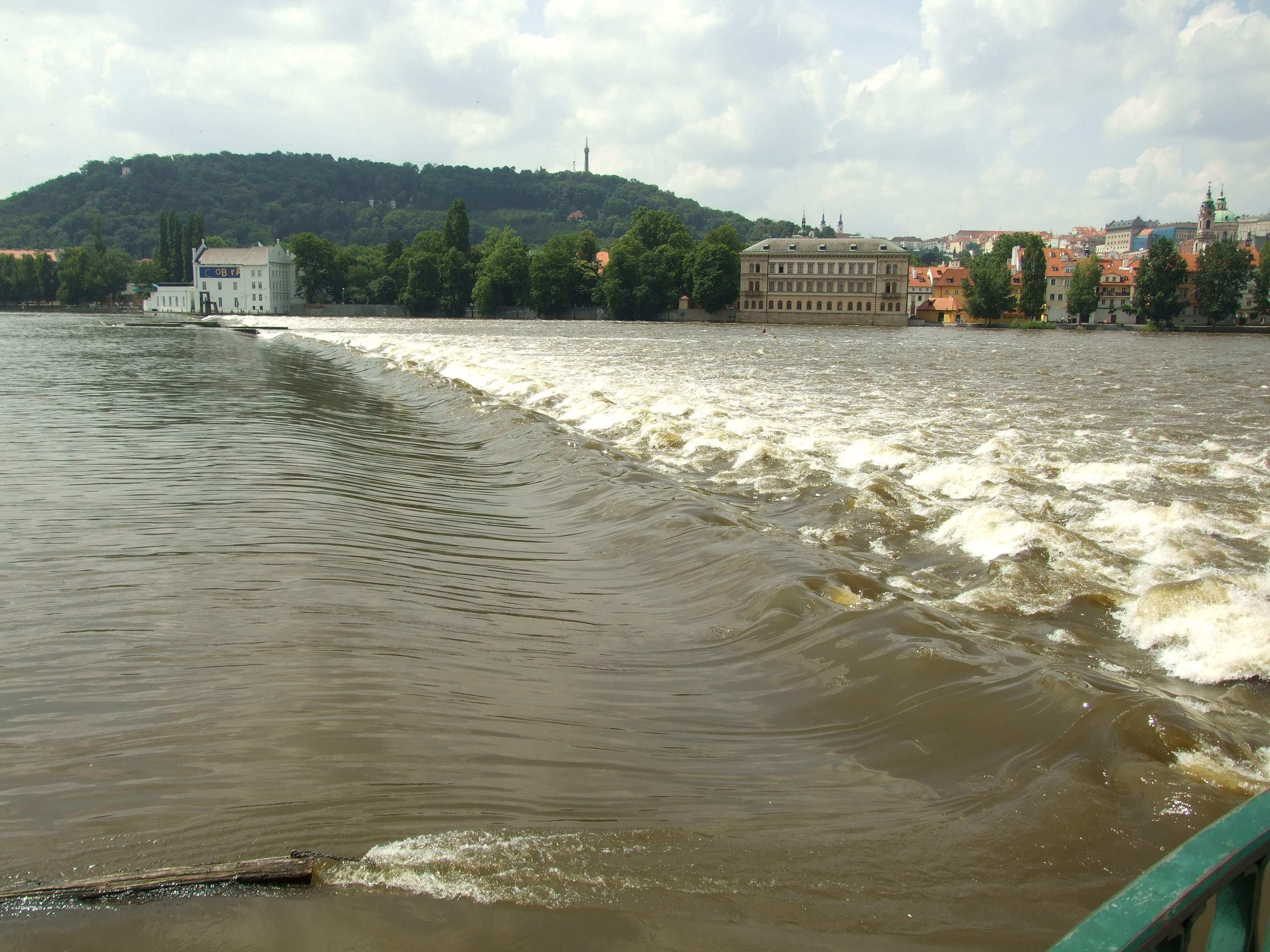 High water level of Vltava river in Prague. In late june 2009 several south-bohemian rivers, including Vltava, caused flooding of several villages and cities. As a result, water level of Vltava in Prague rose; emergency council was active for several days and Čertovka was closed. Prague, CZhelp